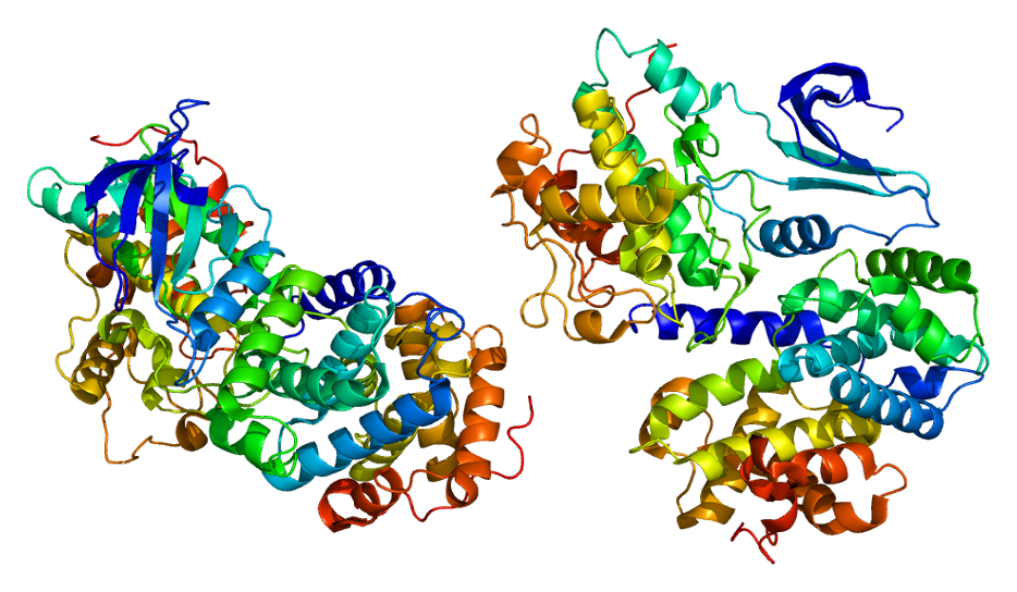 Structure of the CCNA2 protein. Based on PyMOL rendering of PDB 1e9h.